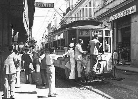 Passengers ride on the outside of tram in Havana, Cuba.